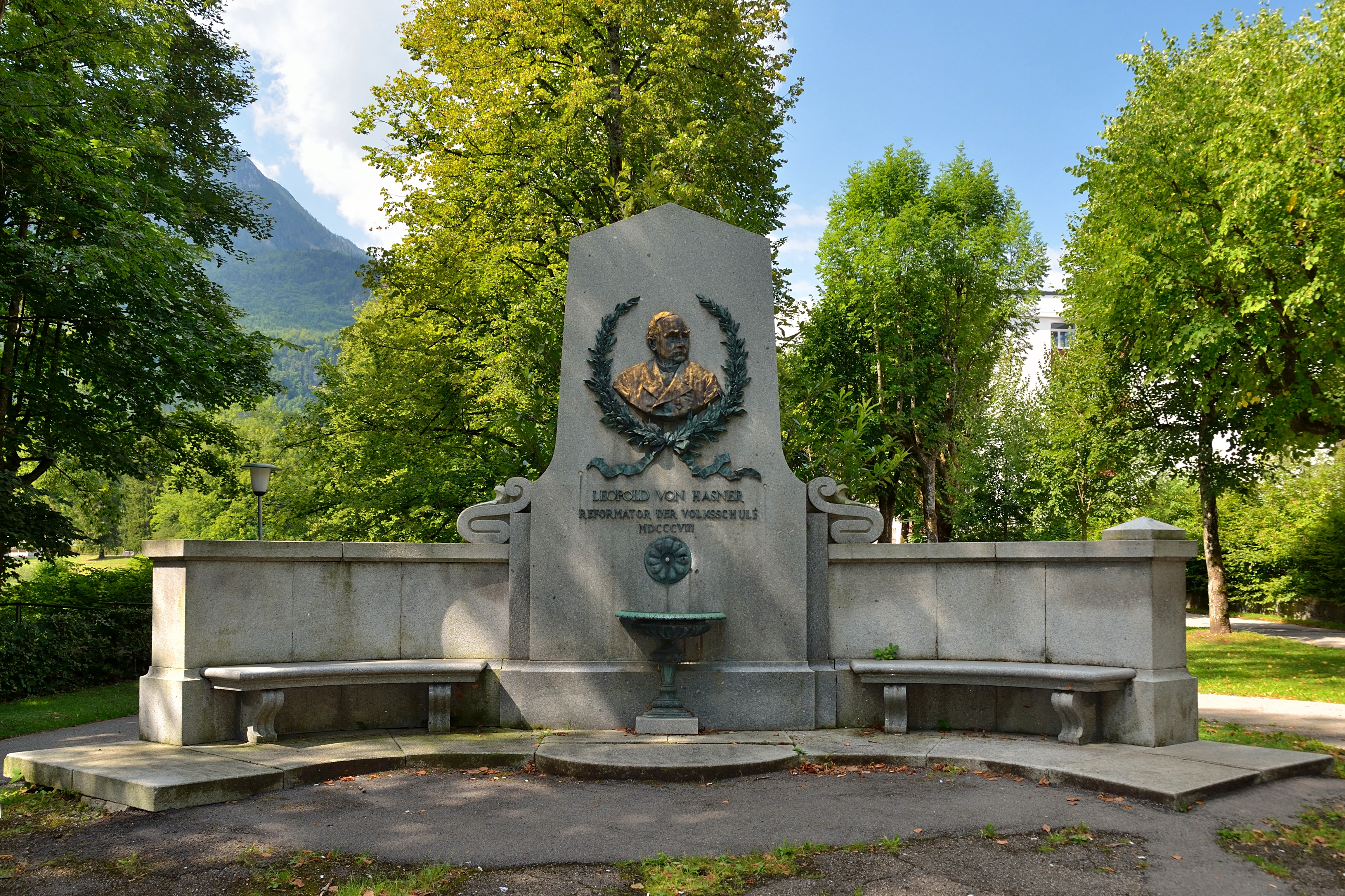 Monument for Leopold Hasner at the Esplanade at Bad Ischl, Upper Austria.